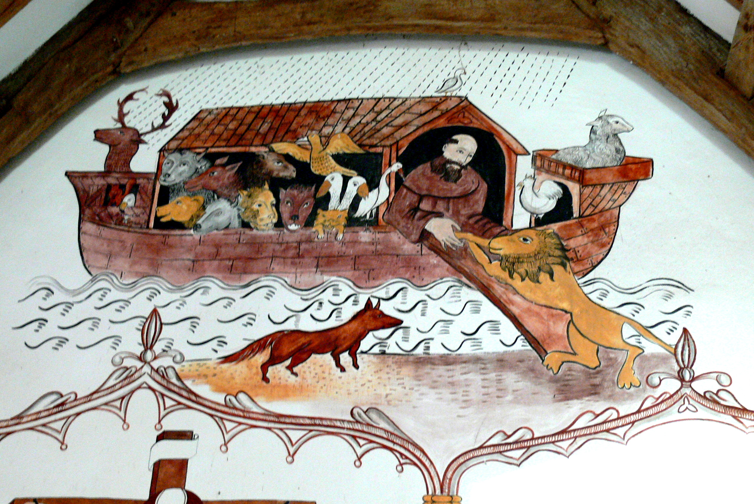 St.Fagans National History Museum ( Cardiff ). Saint Teilo church - Interior: Reconstructed medieval mural of the Noah´s Ark.